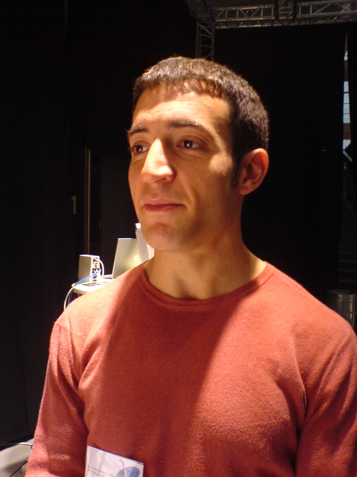 American software engineer and nerdcore hip-hop artist Dan Maynes-Aminzade, also known as Monzy.